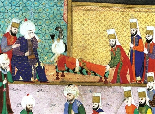 Ottoman miniature (cropped) depicting the coffin of Mehmed, son of Şehzade Mustafa.